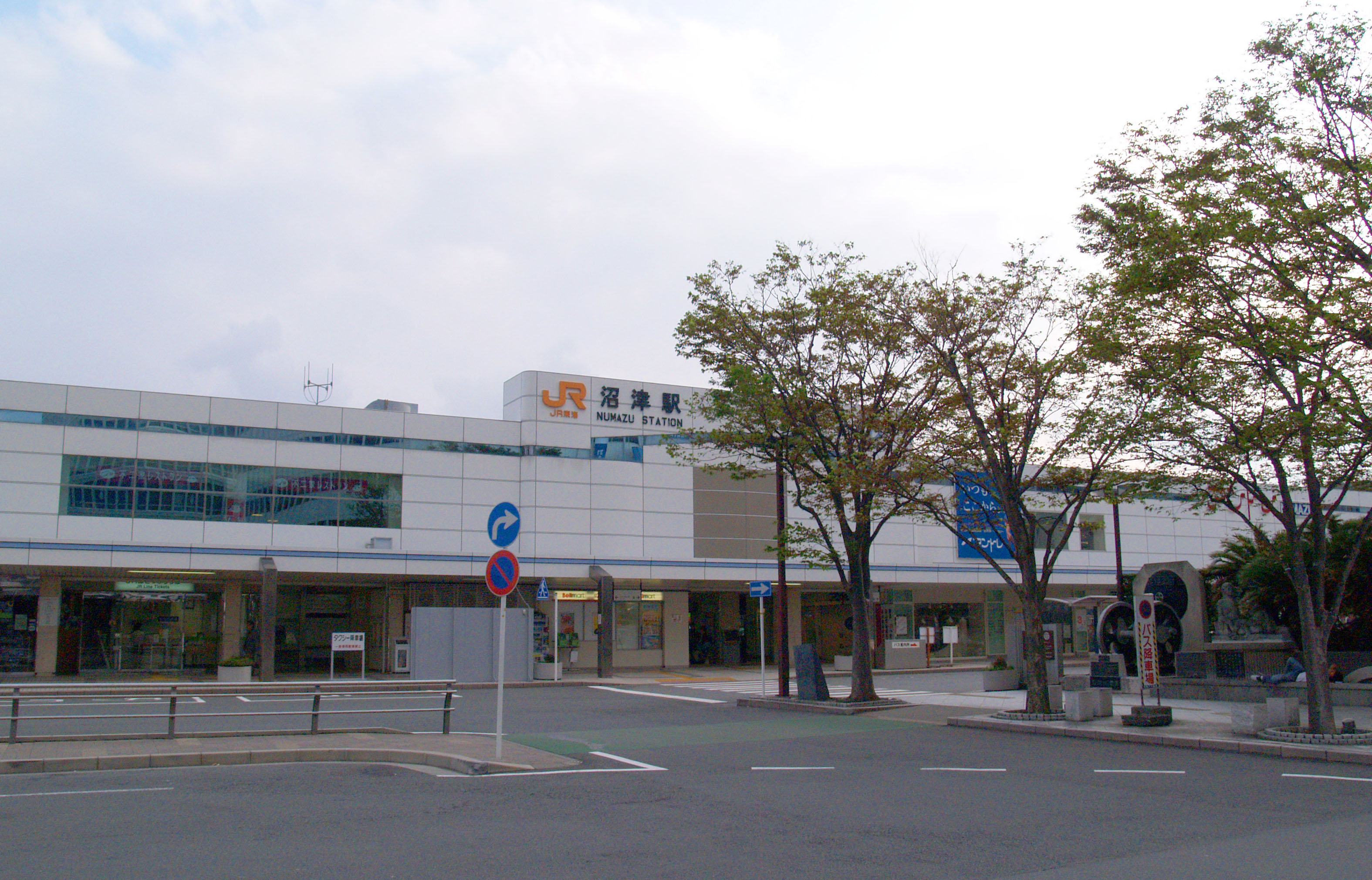 South Entrance of Numazu Station